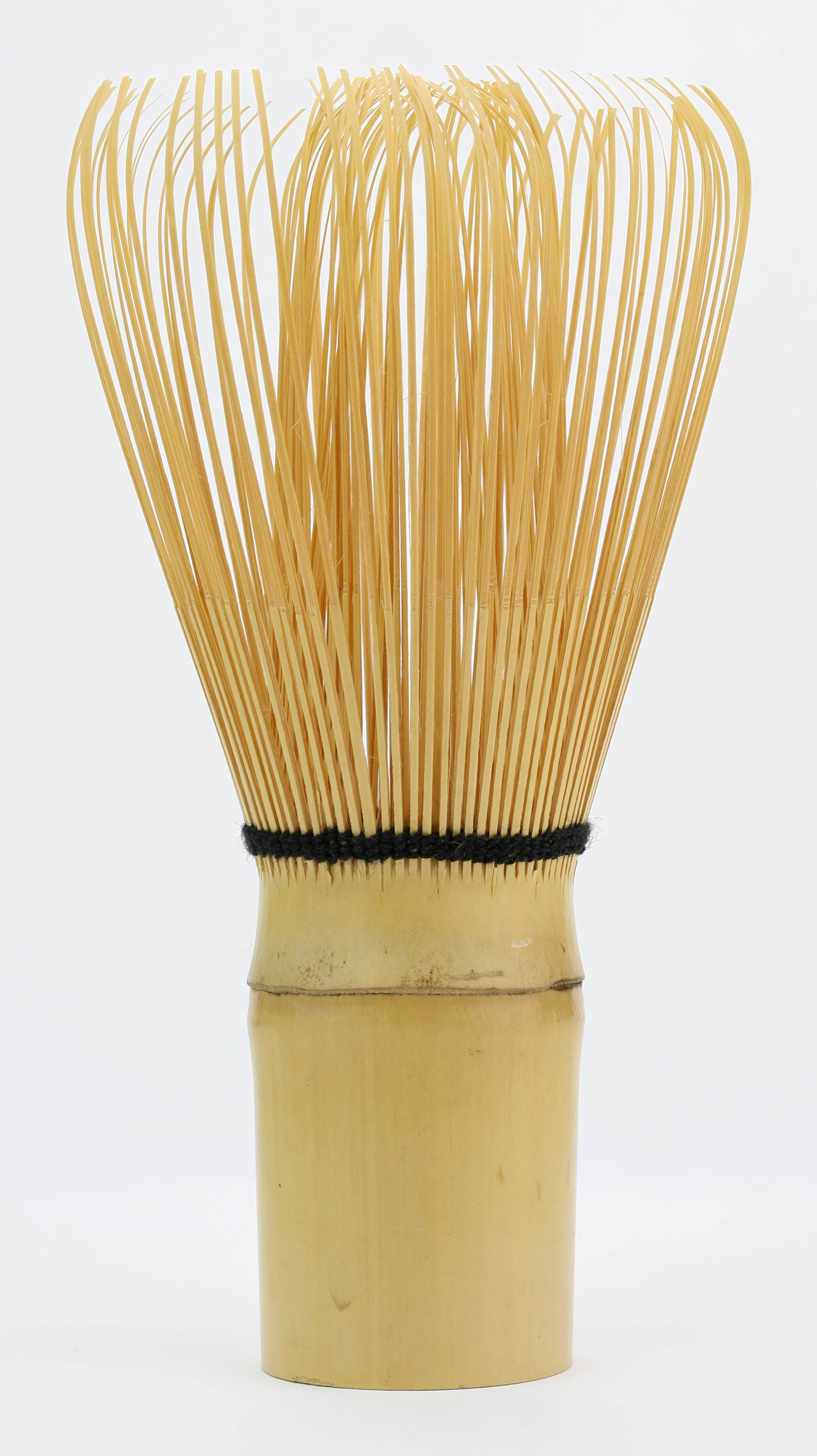 The side view of a chasen used for the japanese tea ceremony